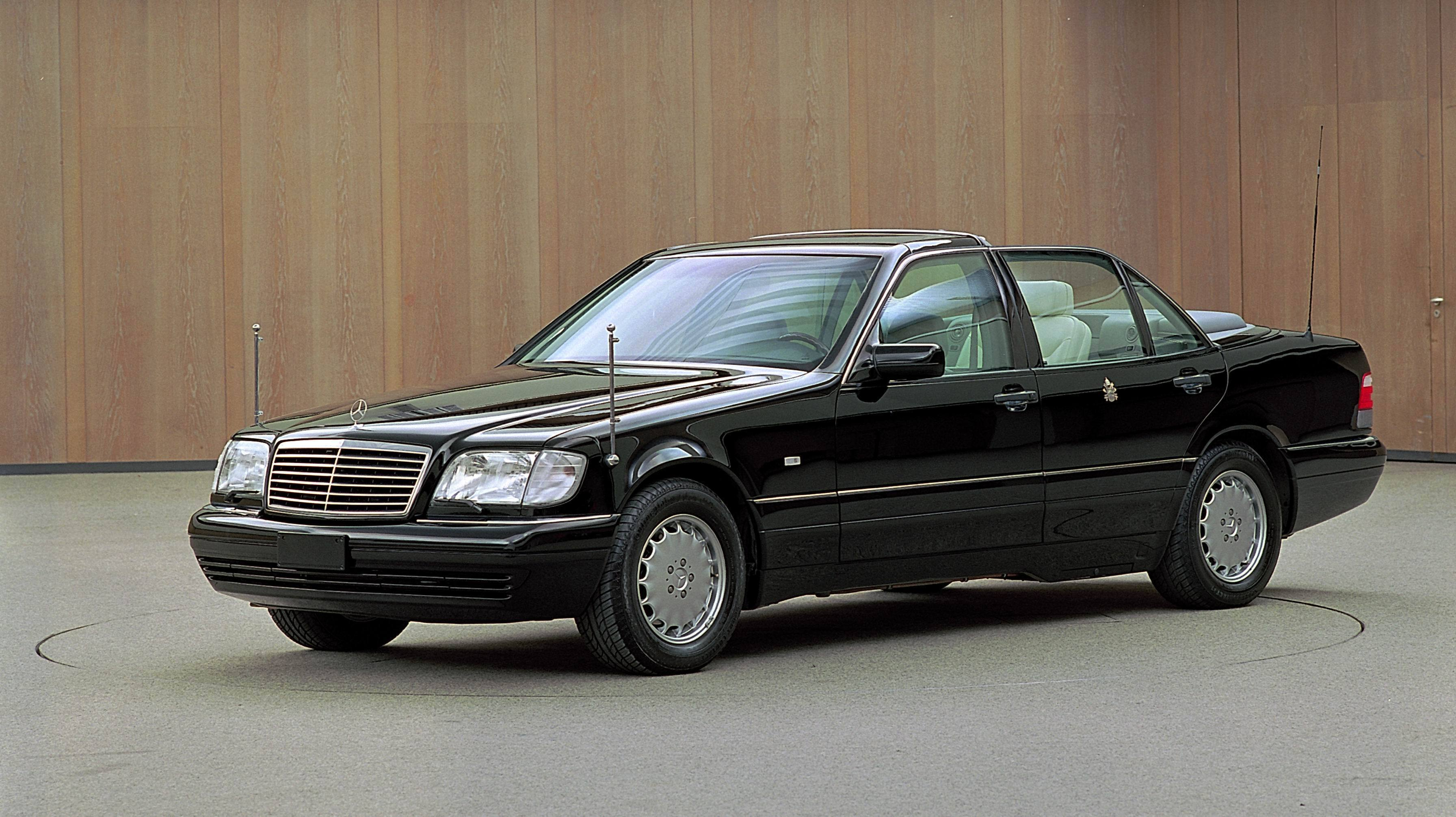 Picture description: Mercedes-Benz S 500 long Landaulet Source: Media pages of DaimlerChrysler AG Permission: You are welcome to use contents of the DaimlerChrysler media pages for your activities for Wikipedia. In addition, we accept the terms under GNU-FDL. The offer also refers to the existing pictures. (Dr. Josef Ernst, Communications, DaimlerChrysler AG)